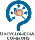 Uncyclomedia Uncommons logo, Uncyclopedia's parody to Wikimedia Commons